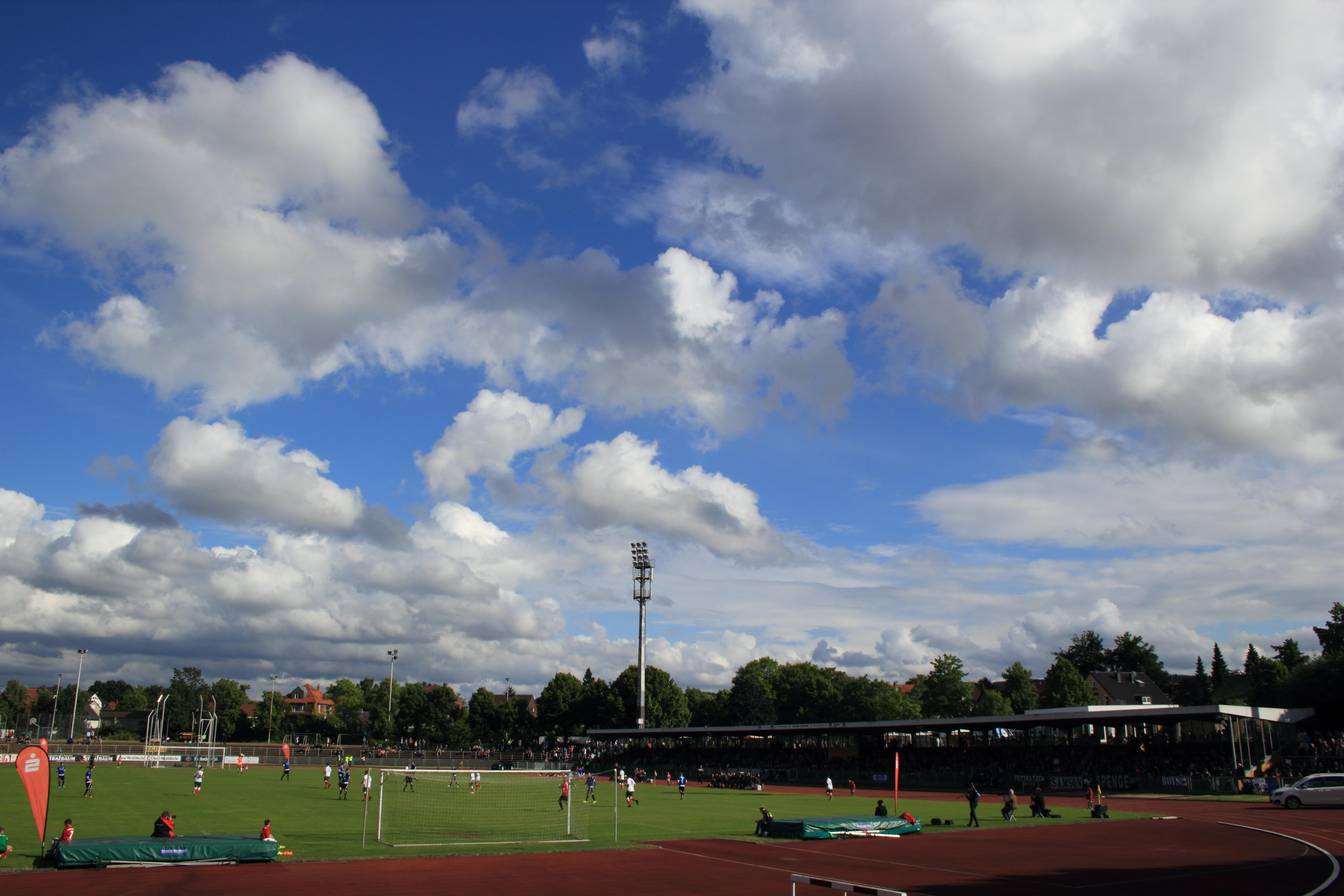 Russheide Stadium in Bielefeld during the 161. city-derby between VfB Fichte Bielefeld and DSC Arminia Bielefeld (final result 0-6). Audience: 2.614